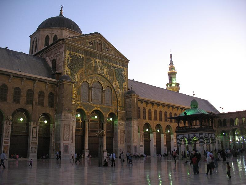 De Grote moskee van Damascus, ook wel de Omajjadenmoskee genoemd, is de belangrijkste moskee van de Syrische hoofdstad Damascus. De moskee is zowel geestelijk als qua architectuur een belangrijk gebouw. Bijzonder is ook dat hij het hoofd van Johannes de Doper als relikwie bevat, die zowel door christenen als moslims als profeet wordt beschouwd. De moskee werd gebouwd tussen 706 en 715 door de kalief al-Walid I van de Omajjaden. Op dat moment in de geschiedenis was Damascus één van de belangrijkste steden van het Midden-Oosten.